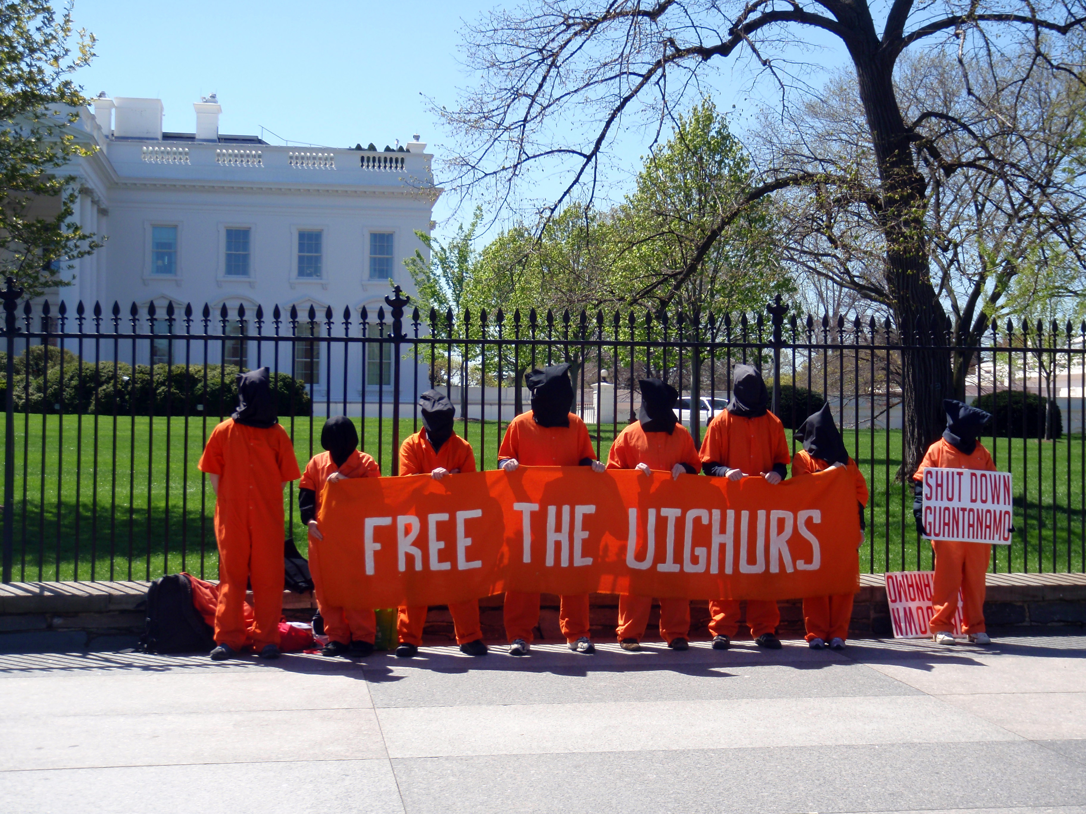 Protesters lobby for the release of the Uyghurs from Guantanamo